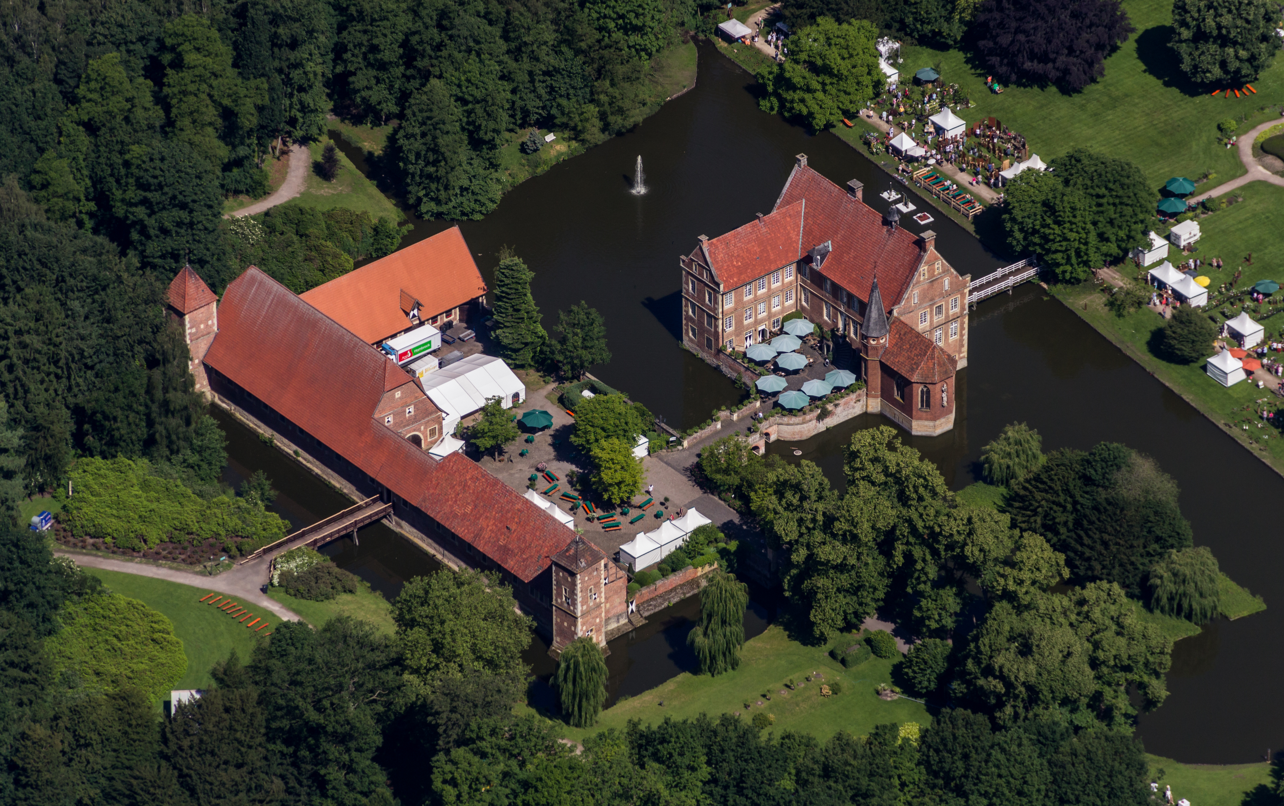 Hülshoff Castle, Havixbeck, North Rhine-Westphalia, Germany This image shows a heritage building in Germany, located in the North Rhine-Westphalian city Havixbeck (no. 23).